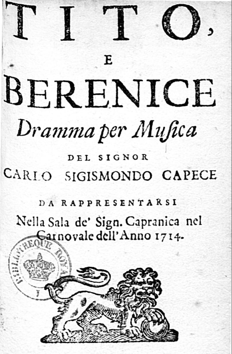 Title page of the libretto by Carlo Sigismondo Capece for the opera Tito e Berenice, published 1714 in Rome by Bernabò. The opera's composer was Antonio Caldara (1670–1736)